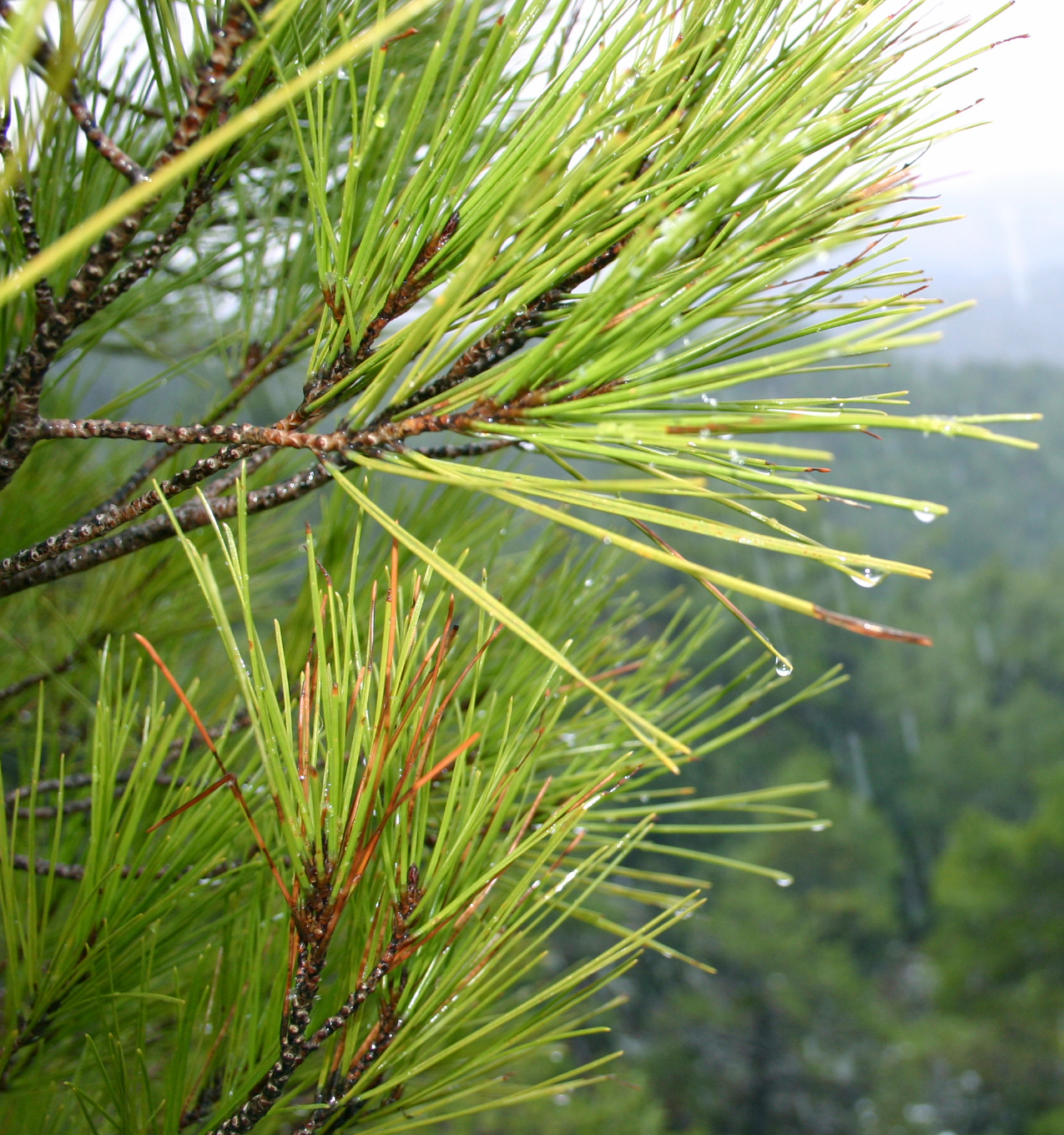 Pinus brutia, foothills of Troödos Mountains in west-central Cyprus.